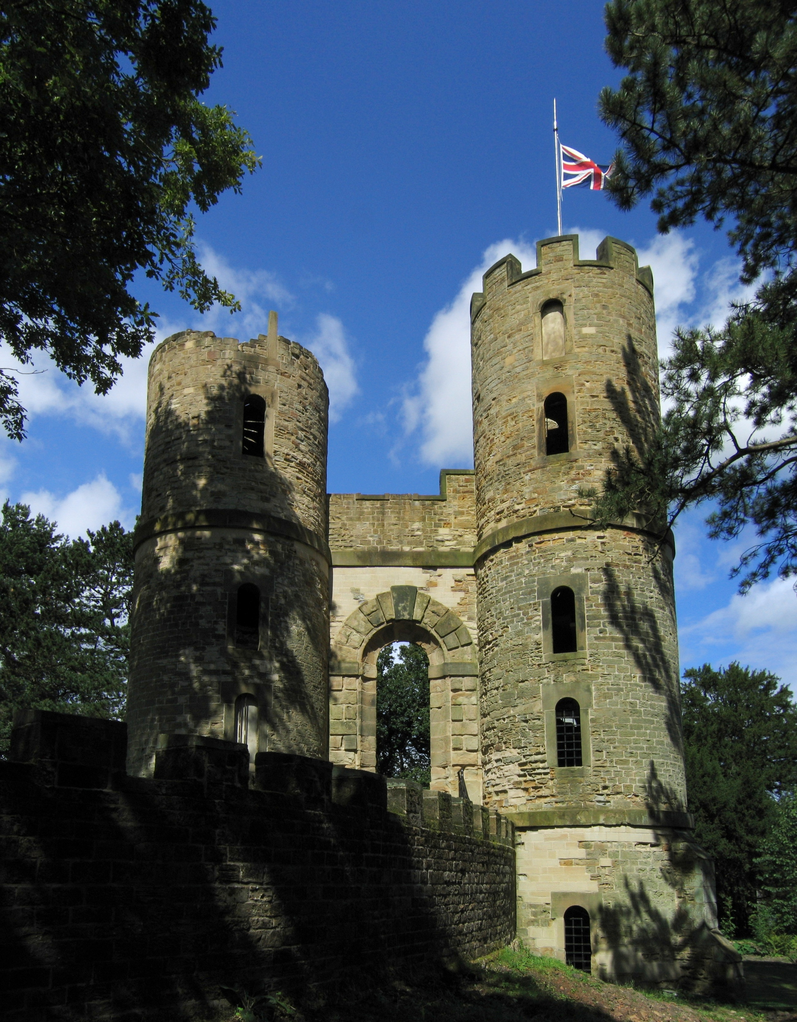 Stainborough Castle, a folly on the grounds of Wentworth Castle. Stitched from two own photos with programs hugin and enblend.